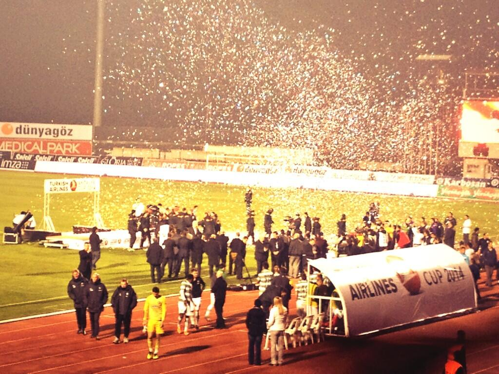 THY Antalya Cup finali Galatasaray - Celtic.